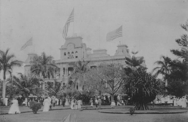 American flags on Iolani Palace, Annexation ceremony.